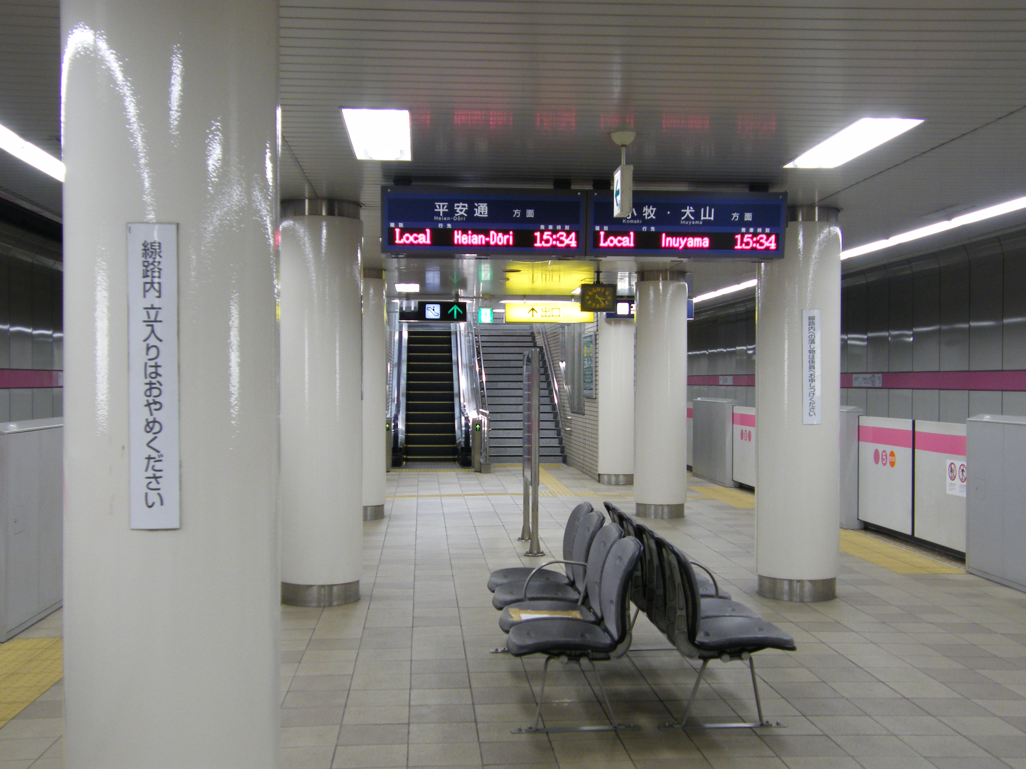 Kami-Iida Station platform